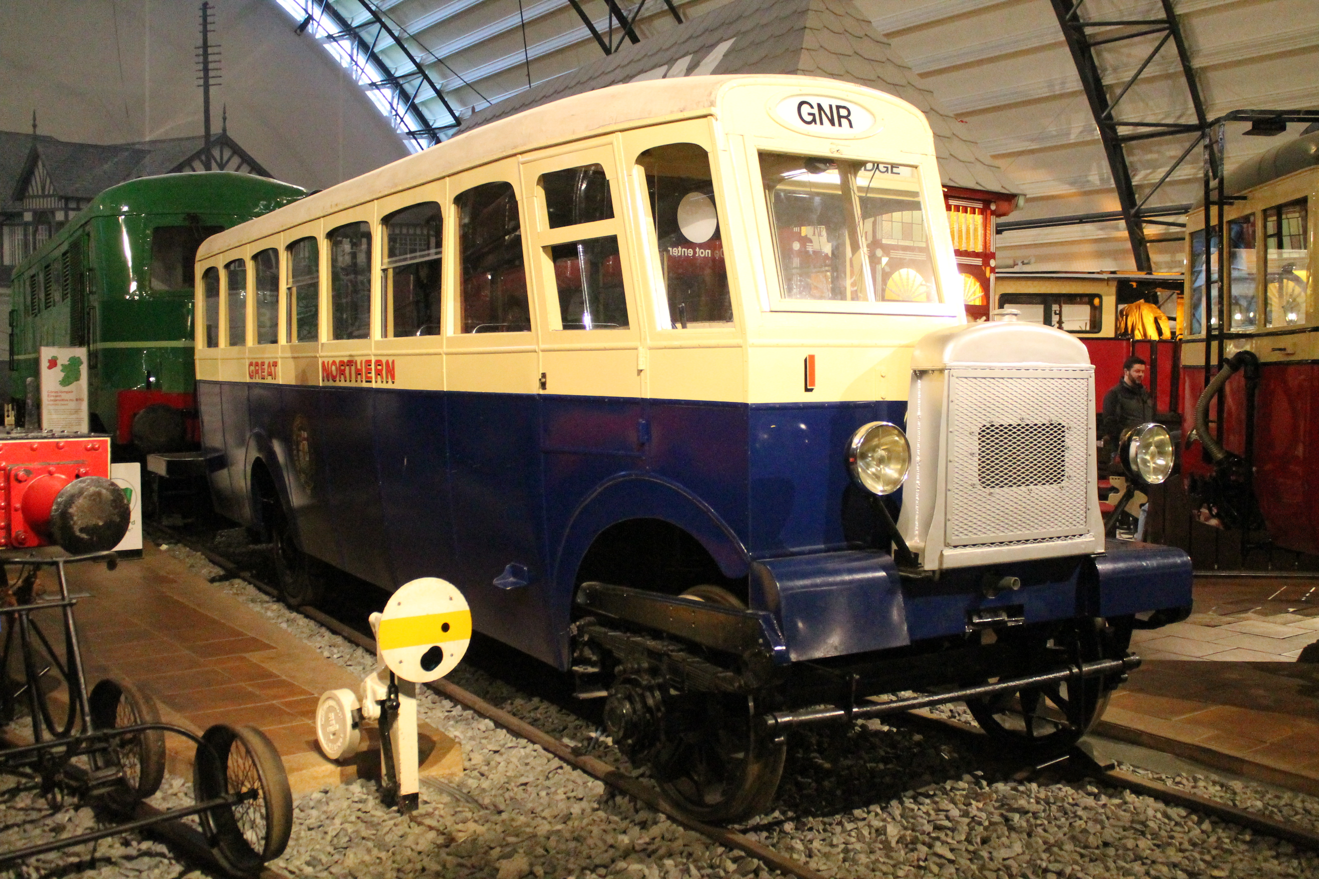 GNR Railbus